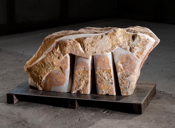 Skulptur Klaus Müller-Klug